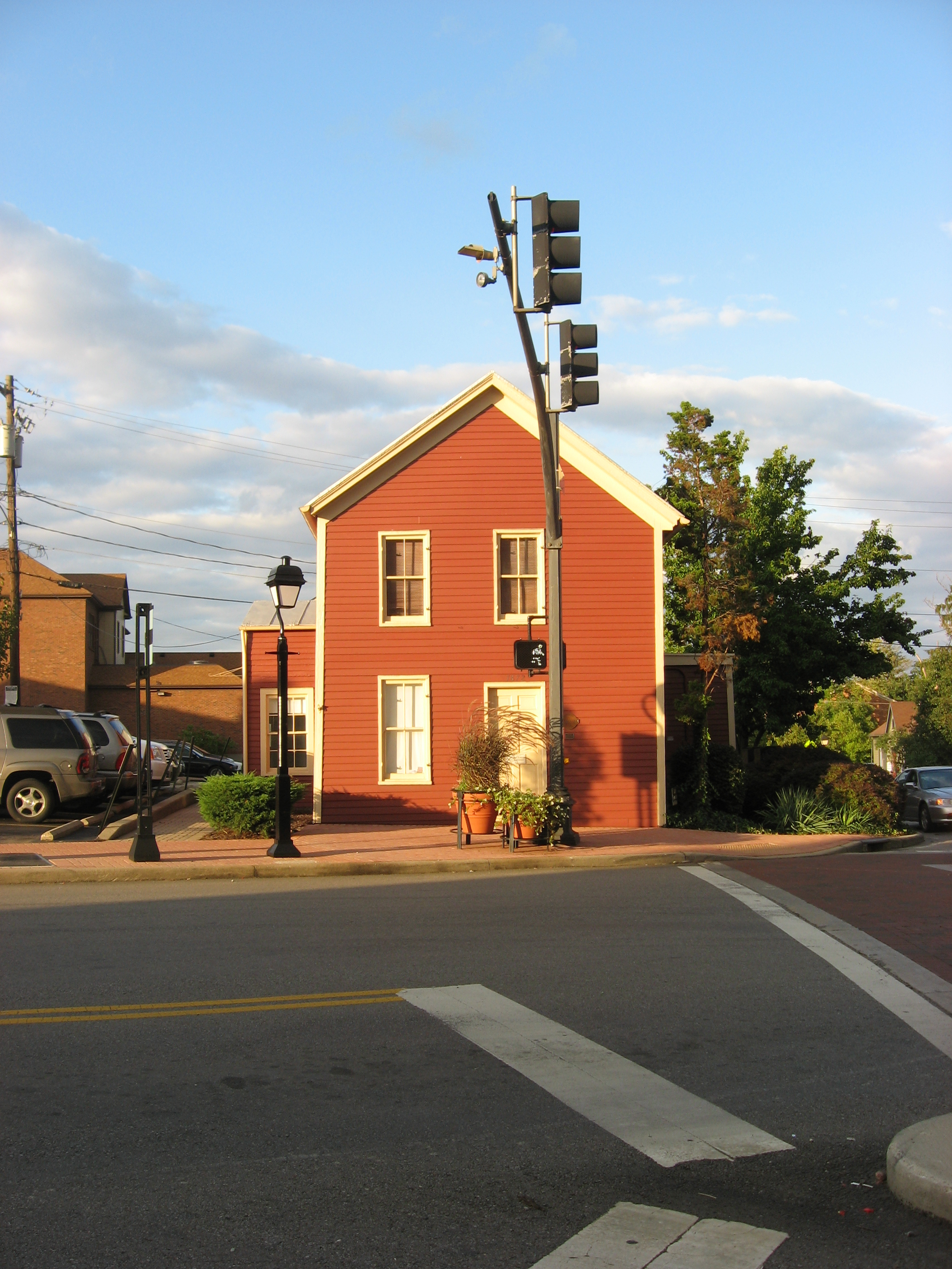 Front of the Yost Tavern, located at 7872 Cooper Road in central Montgomery, Ohio, United States. Built in 1805, it is listed on the National Register of Historic Places.